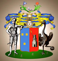 Coat of Arms of Bekleshovy family